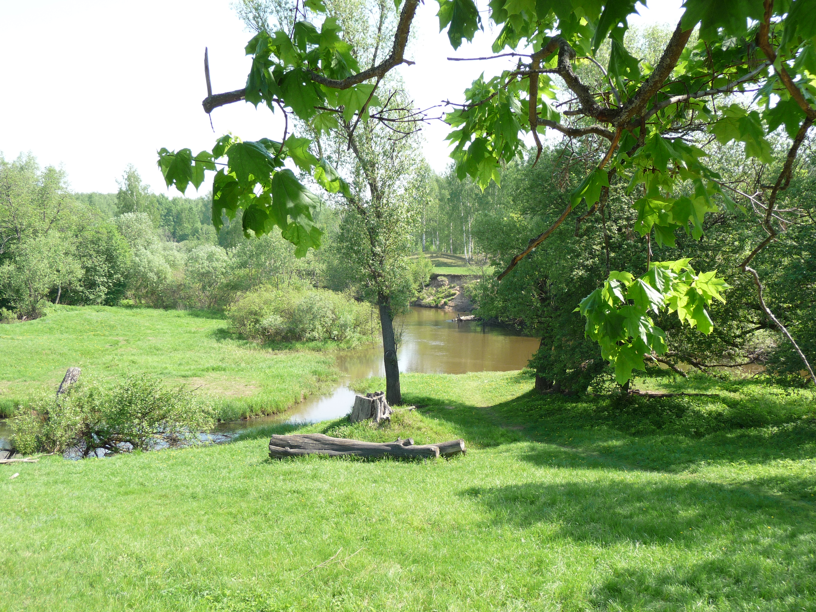 «Ust'-Lyubosivl» of the intestate of the cousin of Prince Dmitry Donskoy, Vladimir the Brave - the place of confluence of Lyuboseevka River (left) and Vorya River (ahead and right). About the villadges of Mednoye-Vlasovo and Mizinovo. Shchyolkovsky District of Moscow Oblast, Russia.